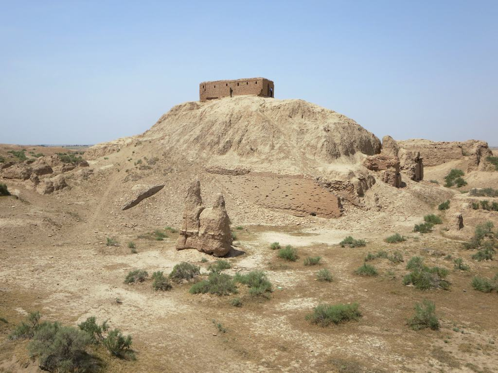 Published on Flickr with the following description : "A ziggurat dedicated to the wind god Enlil rises above the ancient Sumerian city of Nippur, 36 km east of Diwaniyah, Iraq. The palace on top of the ziggurat is a more recent Parthian addition."